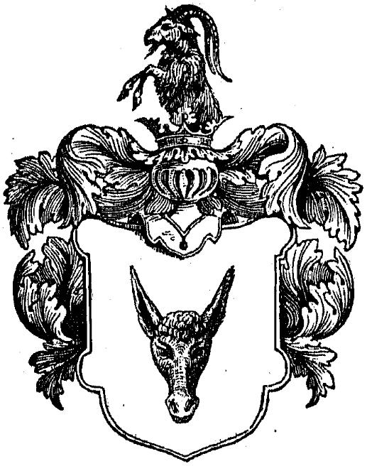 Coat of arms Półkozic from Herbarz polski by Kacper Niesiecki